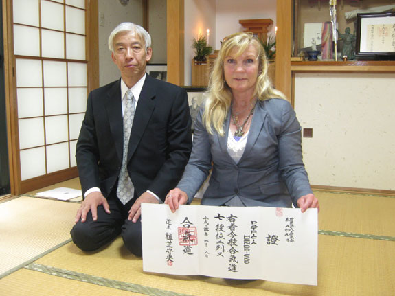 This is a picture of Pat Hendricks Sensei in Japan receiving 7th dan from Moriteru Ueshiba Doshu in 2012.